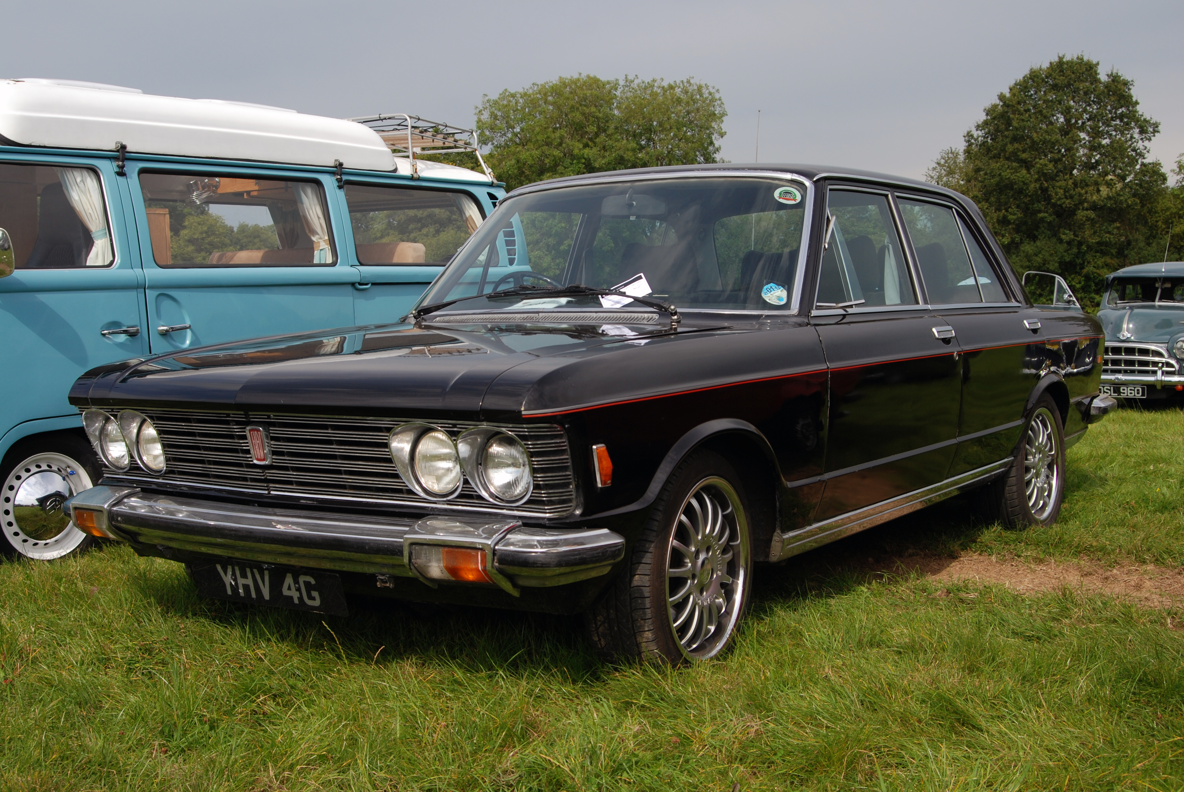 Cranleigh,Aug 2011